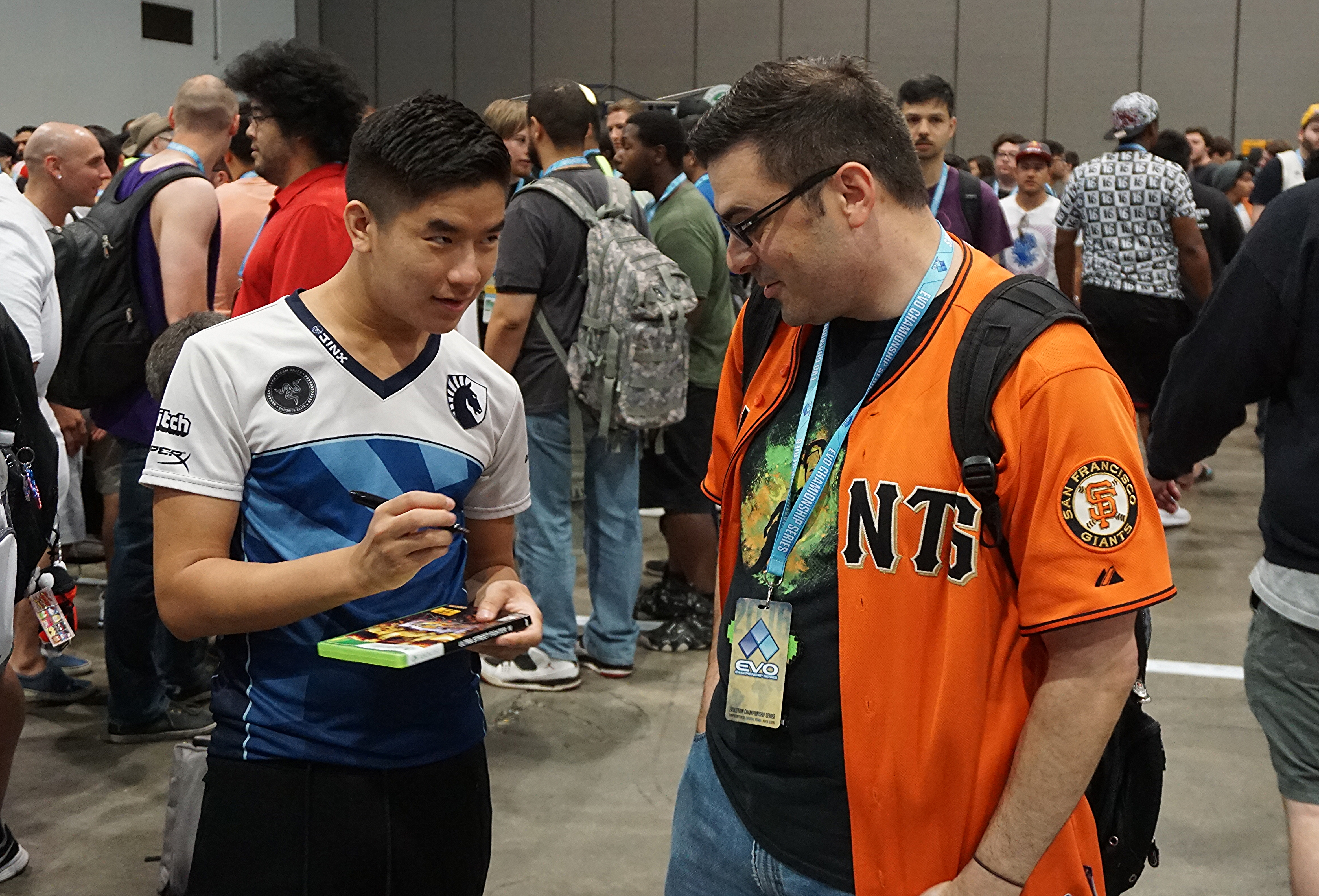 KnuckleDu at Evolution Championships 2016